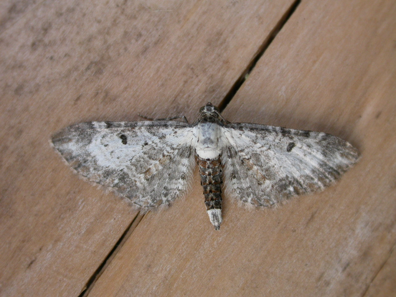 Eupithecia succenturiata, to MV light, Hellerup, Denmark, 24 July 2003